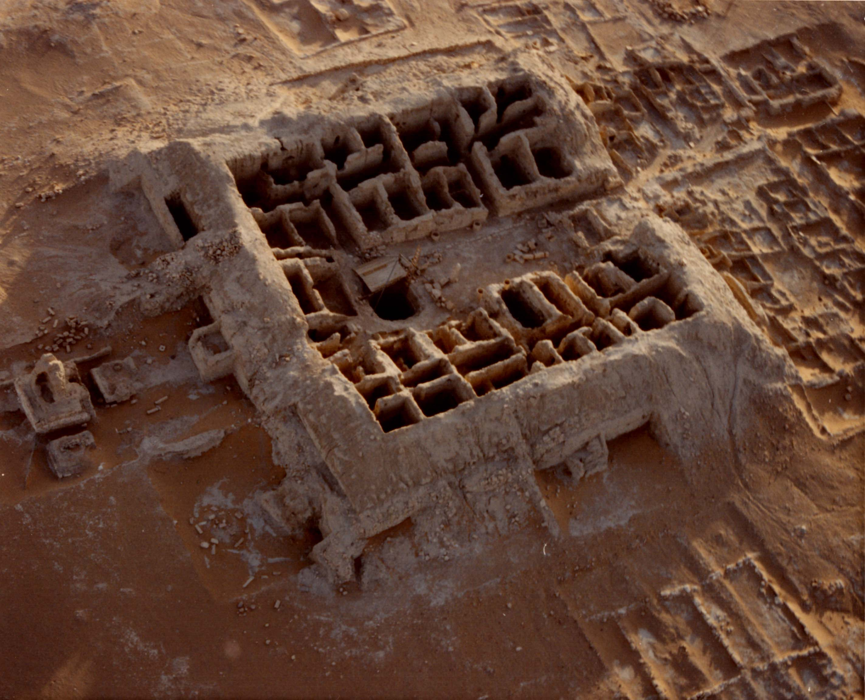 اثار موقع الفاو